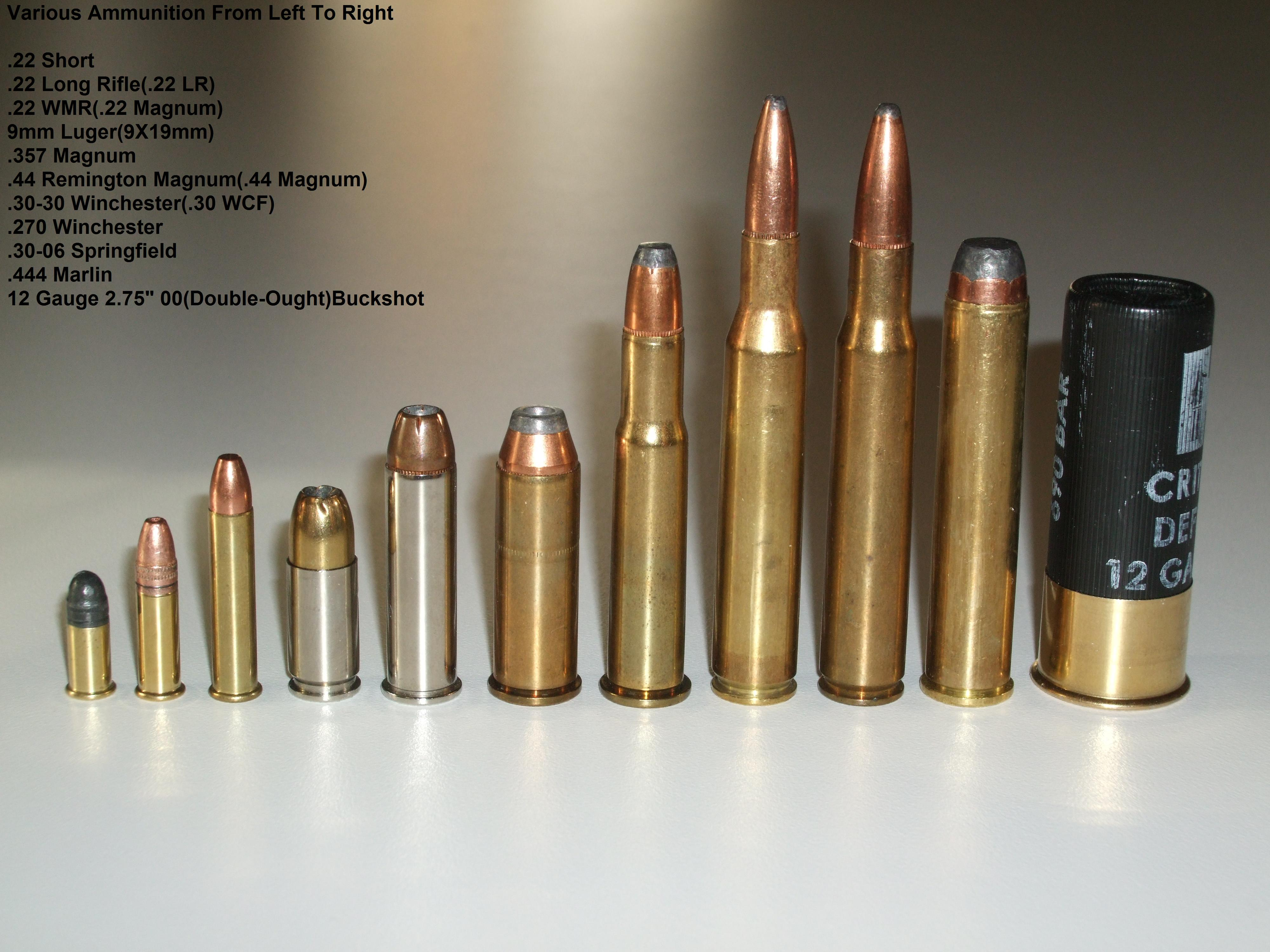 Various ammuntion,rimfire,centerfire,shotshell,handgun and rifle.